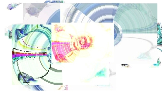 autom@tedVisualMusic, by Sergio Maltagliati, generative visualmusic software, creates images and sounds in relation to precise correspondences sound-symbol-color, producing multiple variations.